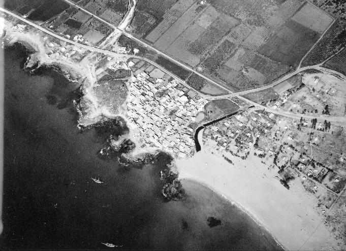 Az-Zib 1948